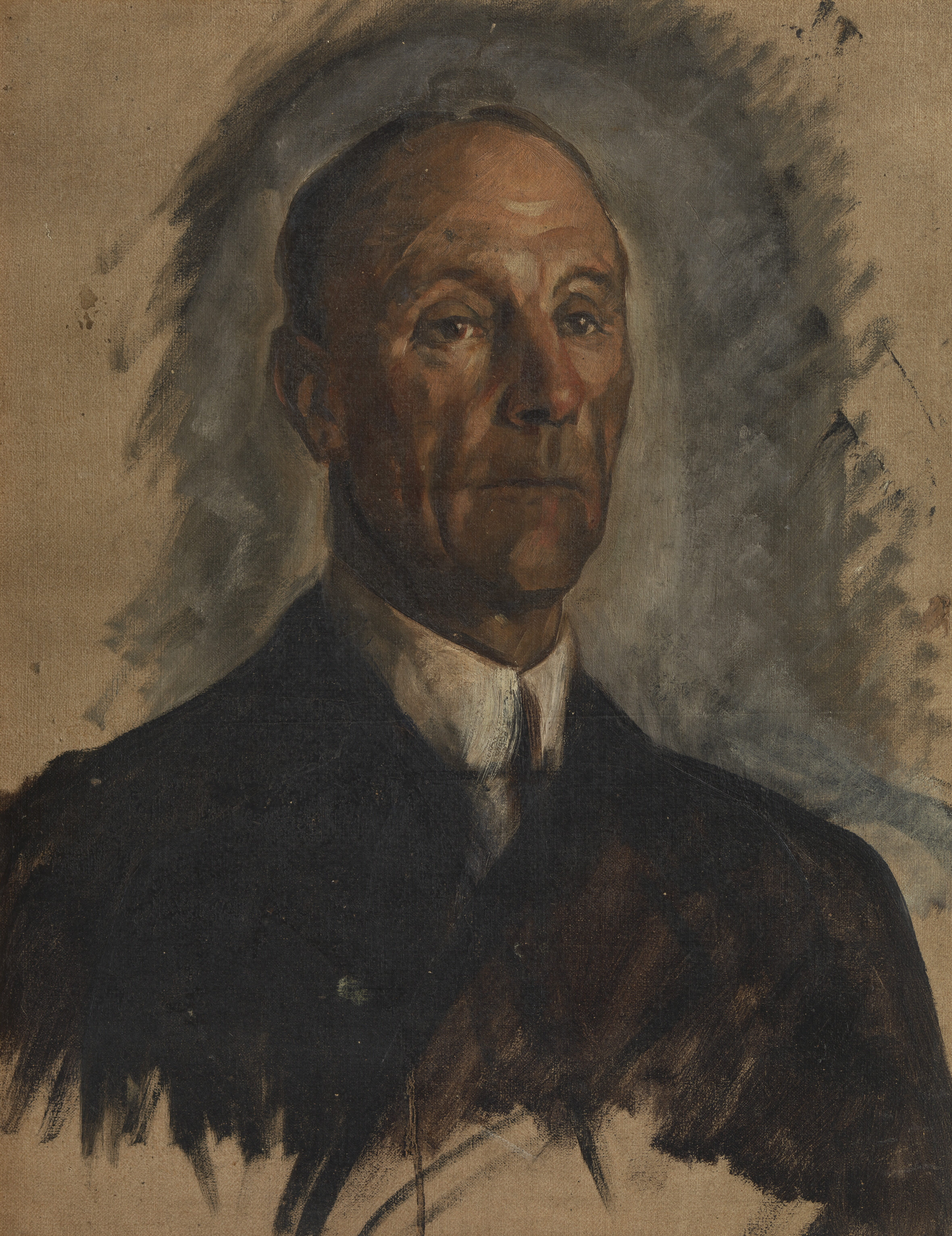 This is a study for IWM ART 1322. image: A head and shoulders portrait of Jellicoe wearing uniform.